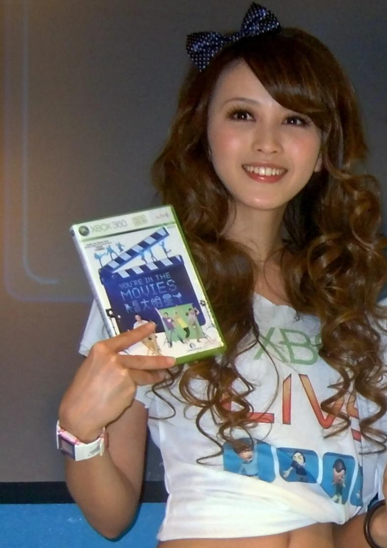 2008 Taipei IT Month: Amigo Feng in a special event by Microsoft.